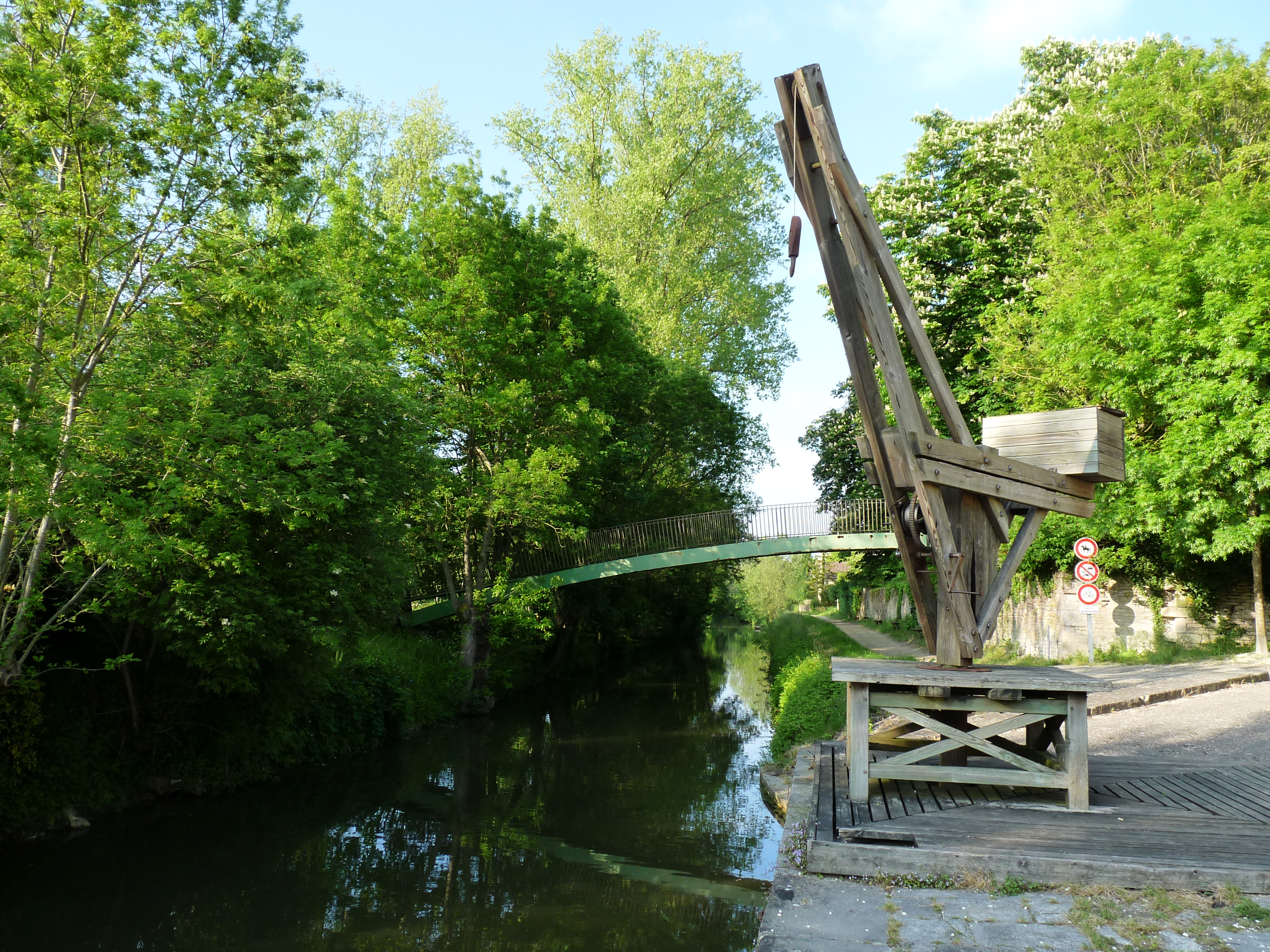 Wooden crane in port of Arçais (Deux-Sèvres)